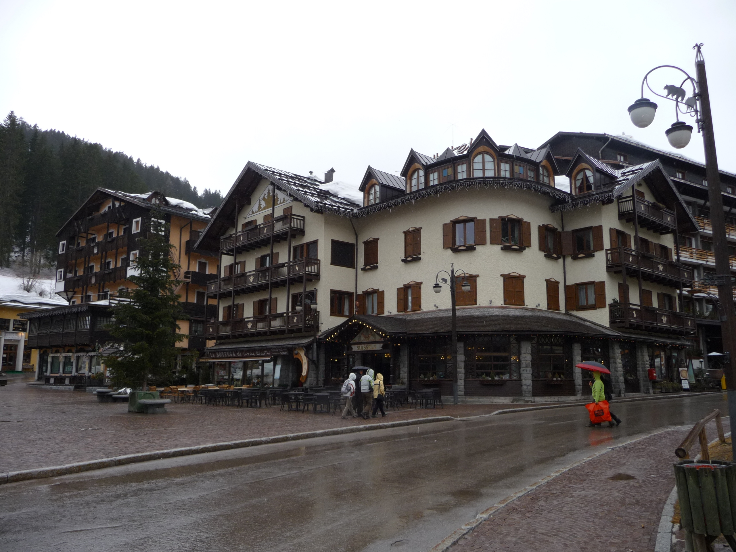 Center of Madonna di Campiglio in April